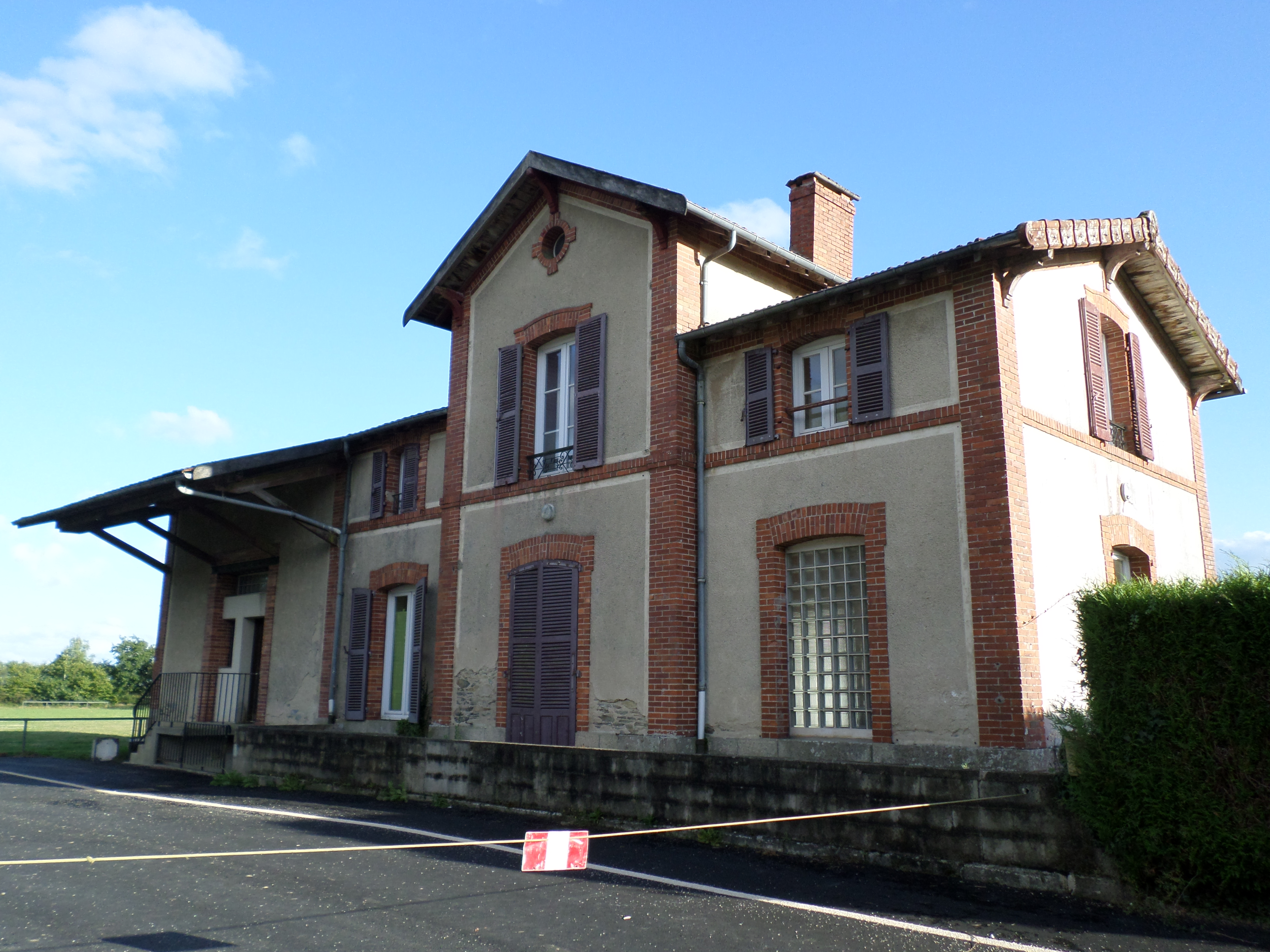 Kaourel, Brittany, railway station